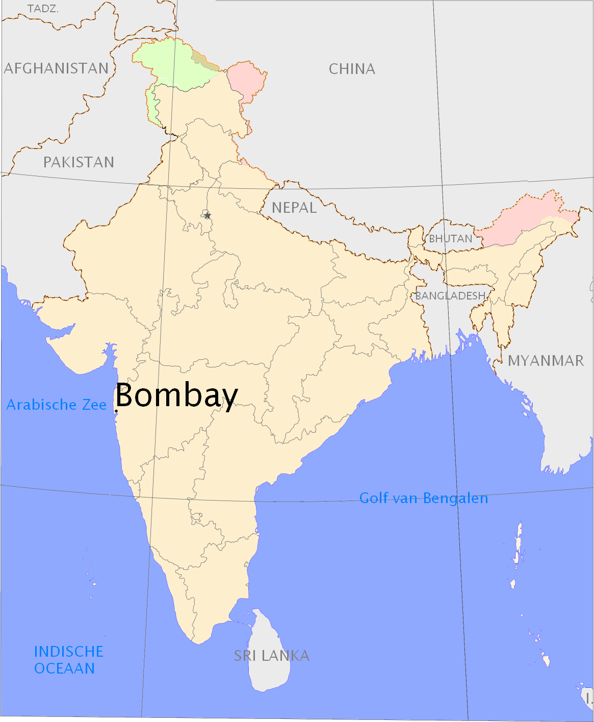 Location of Bombay in India